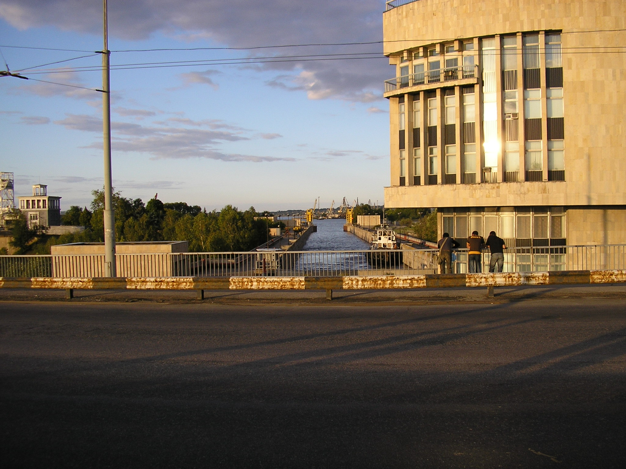 Zaporizhia